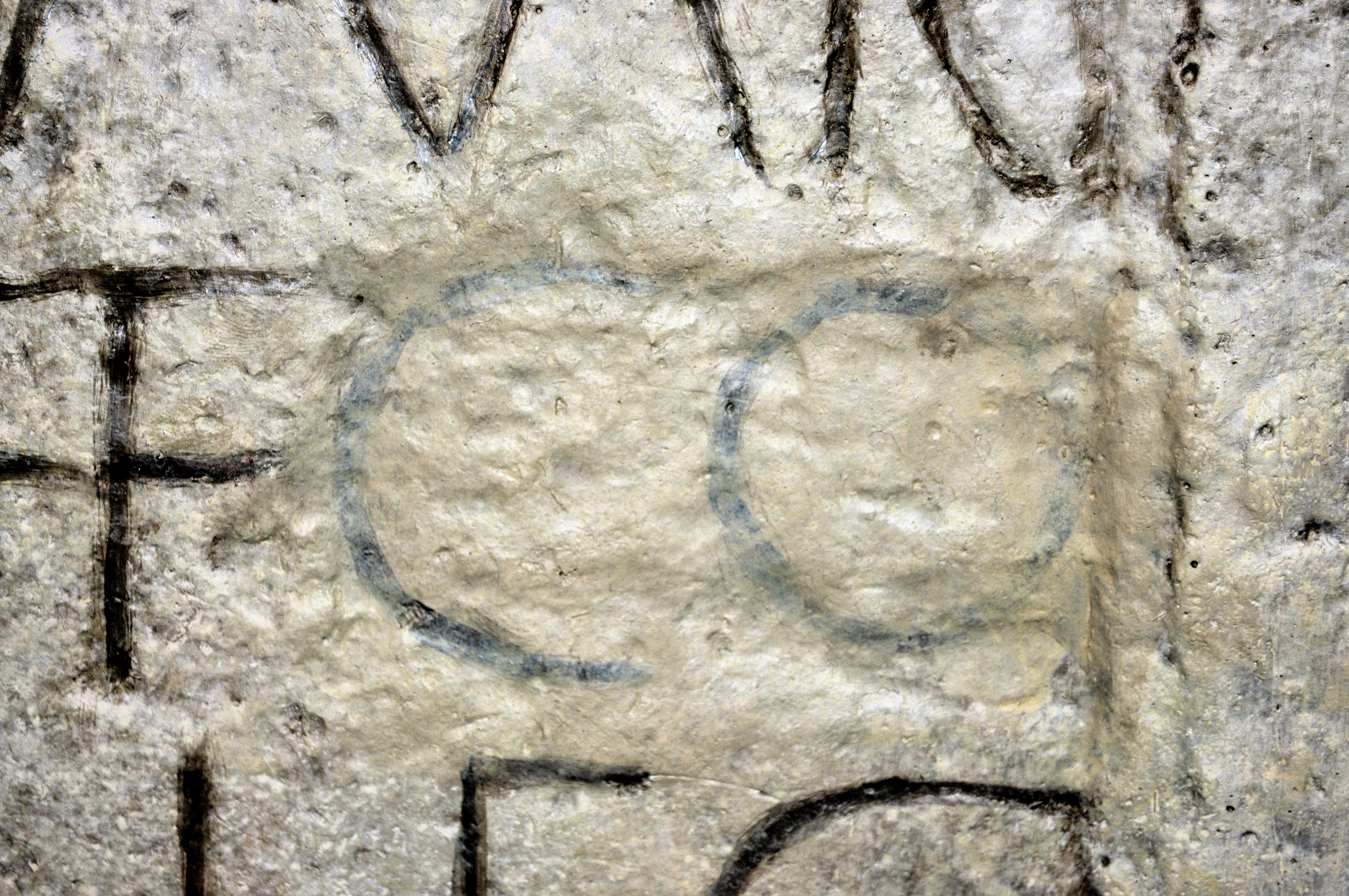 Picture taken in the Roman history museum in Osterburken.